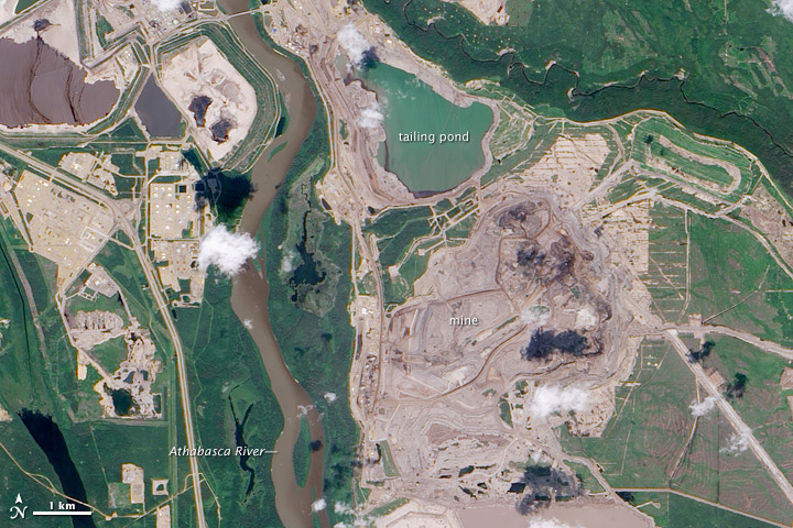 Athabasca Oil Sands NASA Earth Observatory image by Jesse Allen and Robert Simmon using EO-1 ALI data courtesy of the NASA EO-1 team. Caption by Holli Riebeek.